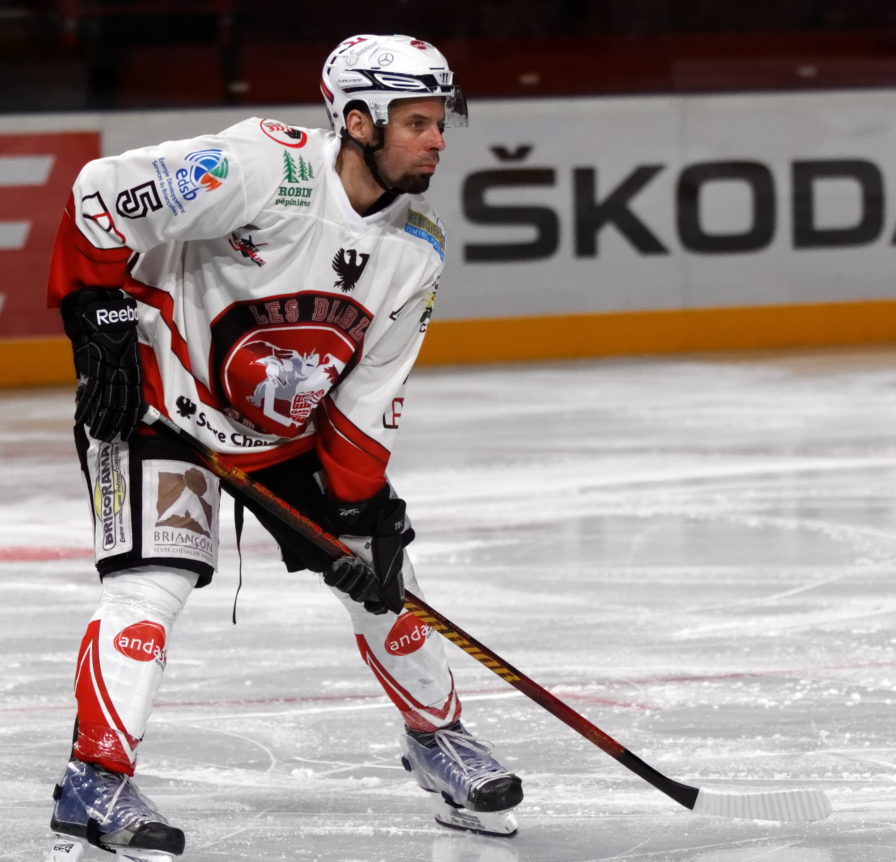 Final of the Ice Hockey French Cup 2013.